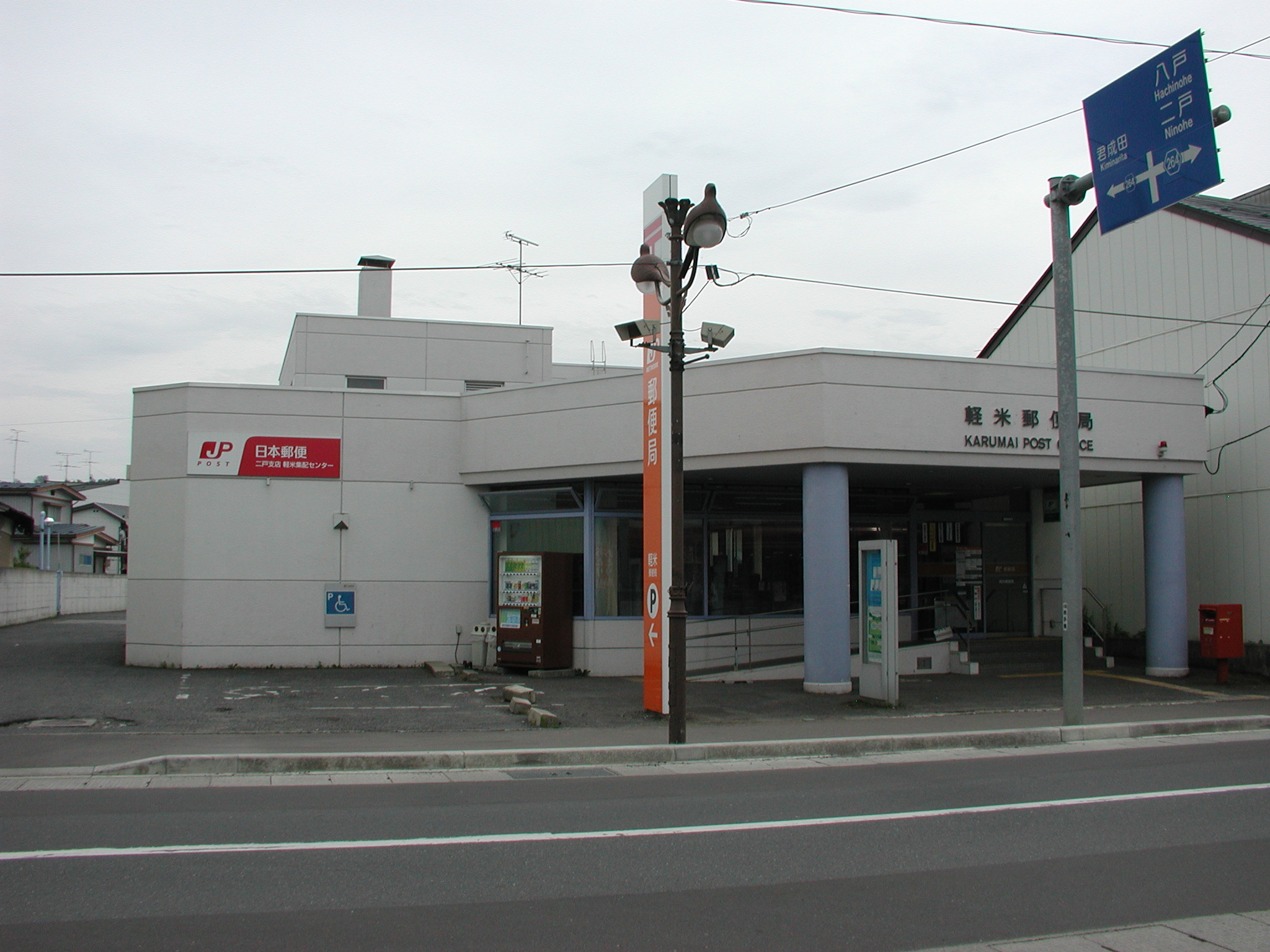 Japan Post Network Co.,Ltd.：Karumai Post Office